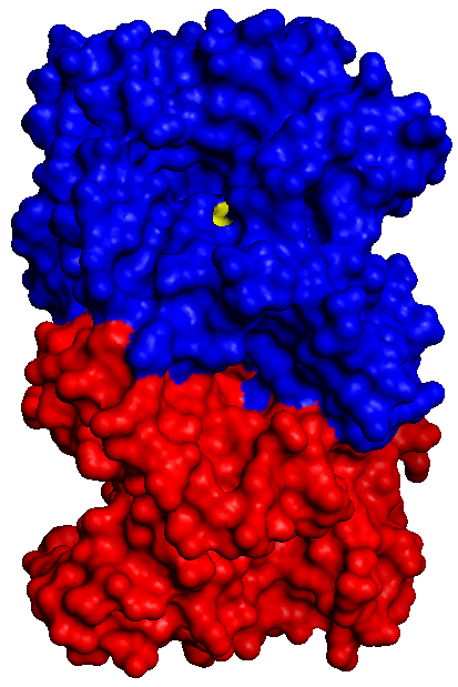 Bacterial luciferase, alpha (blue) and beta (red) subunit. Drawn per PyMOL 0.99 from PDB 1luc. Yellow Alanines 74/75 near the active site cavity